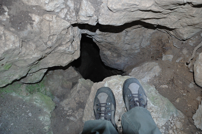 Pitch in the cave Na Bubne, Little Carpathians